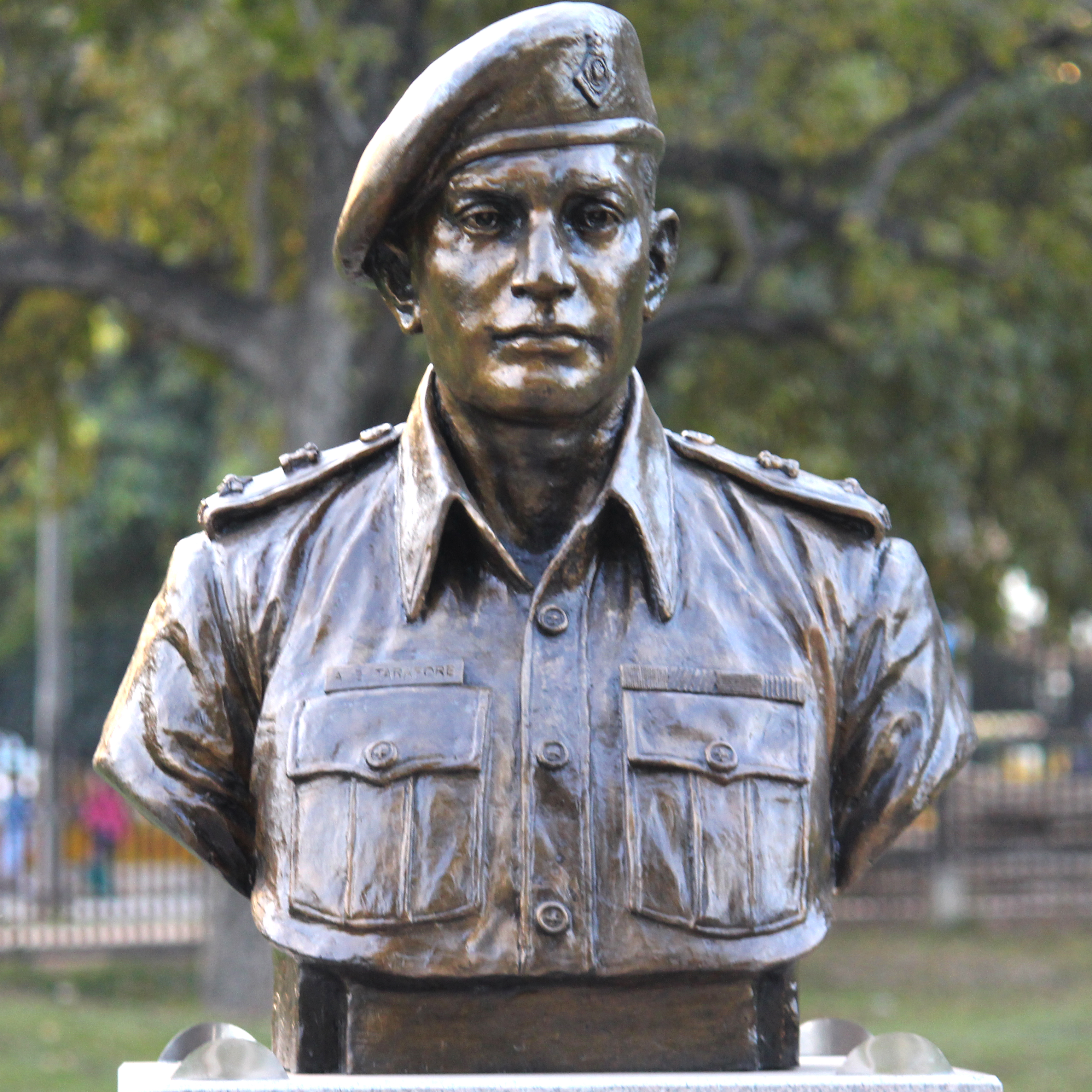 Lt Col Ardeshir Tarapore's statue at Param Yodha Sthal (section for Param Vir Chakra recipients), National War Memorial, New Delhi.